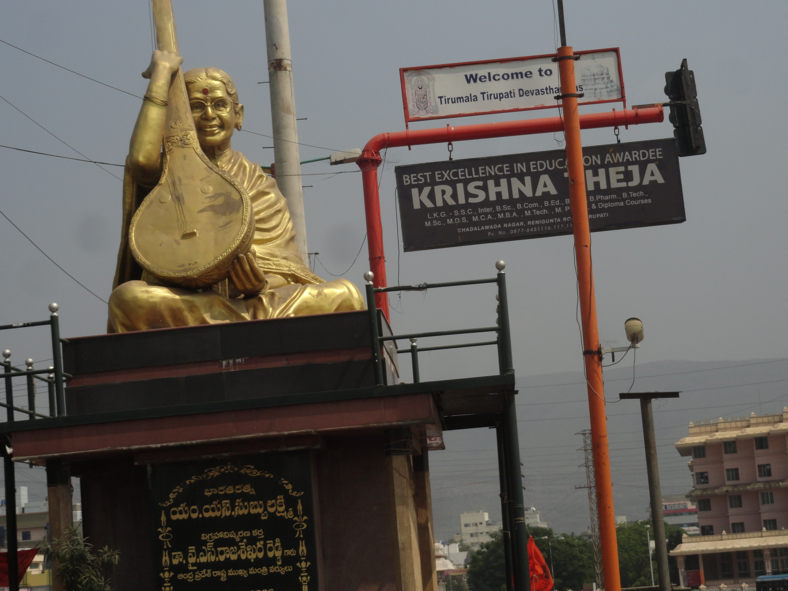 statue of m.s.subbalaxmi, at tirupati